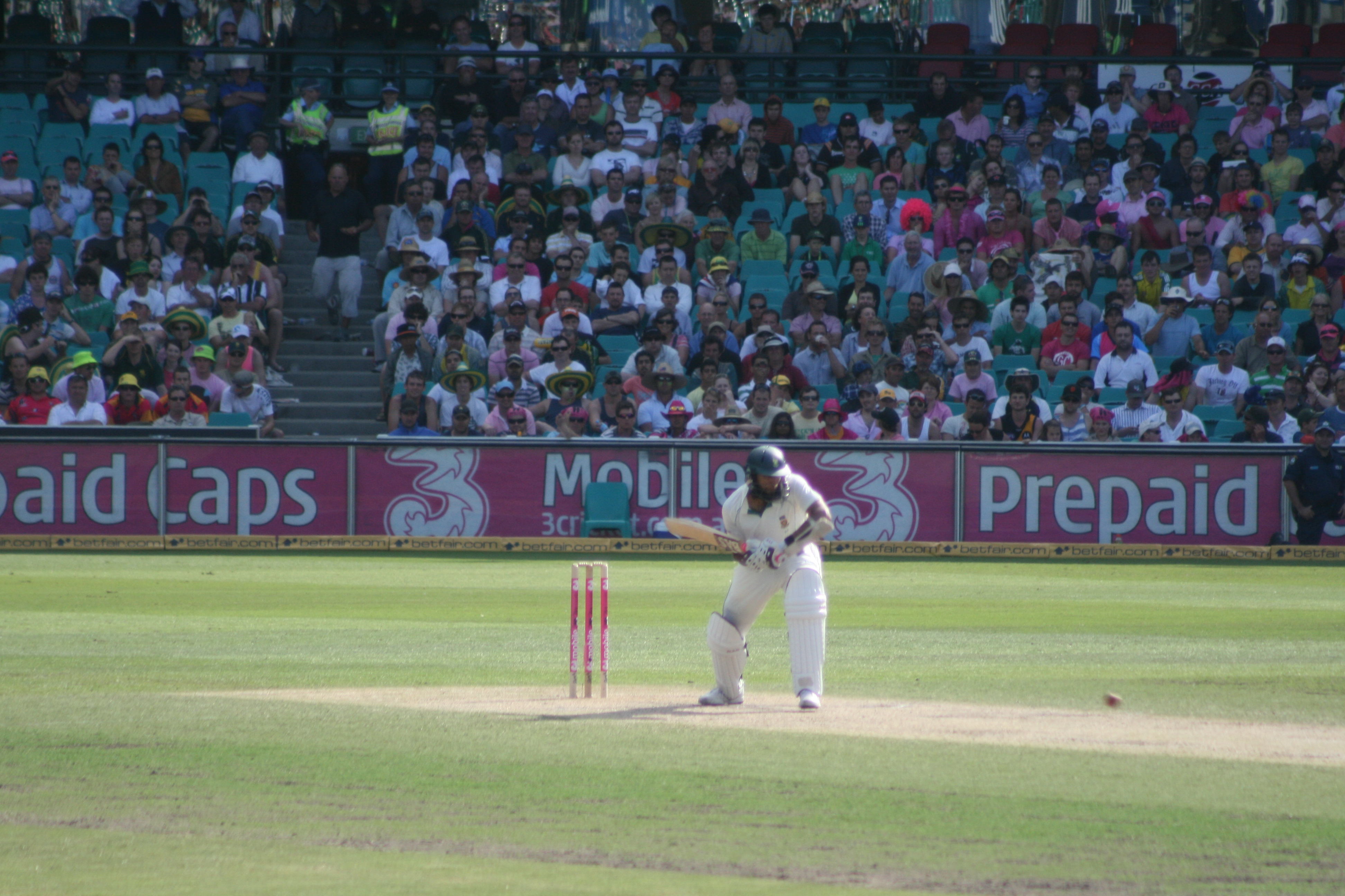 A cricket shot from Privatemusings, taken at the third day of the SCG Test between Australia and South Africa.